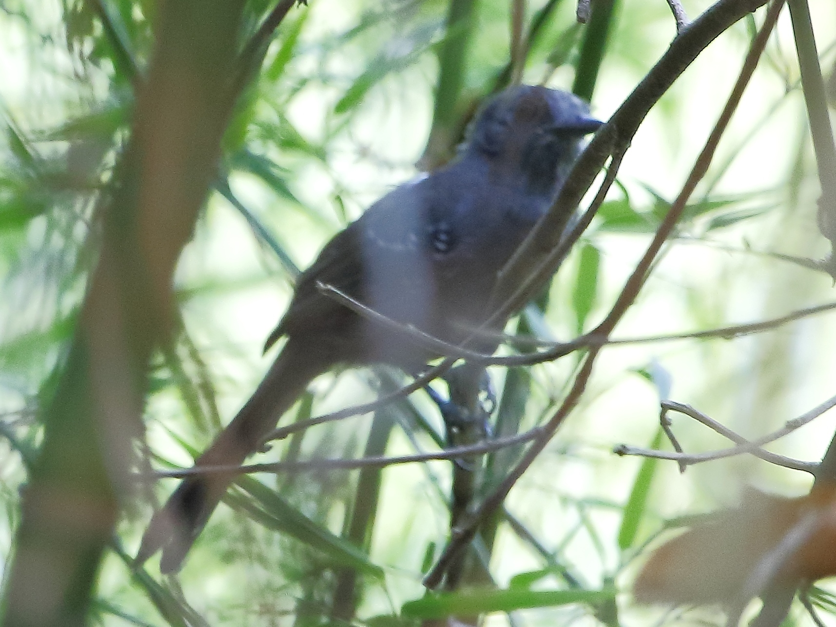 Manu antbird (male) at Marabá - PA - Brazil